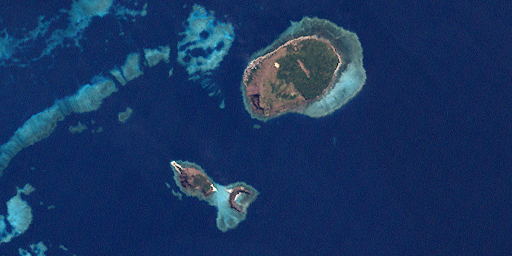 Murray Islands, Torres Strait Islands, Queensland, Australia. Islands: Murray Island (north), Dowar Islet (southwest), Wyer Islet (south)